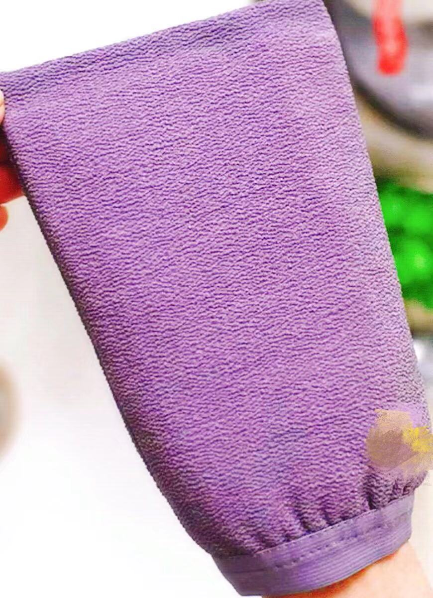 It is a widely-used bath product in some areas of Asia, especially in Thailand, the north of China and South Korea. It was originally invented by Kim Pilgon in South Korea in 1962.